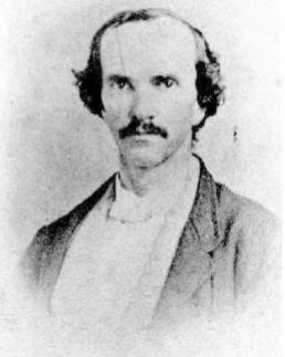 Charles Eubanks, Amanda America Dickson's first husband